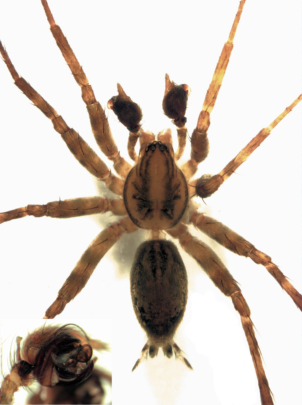 Adult male Aorangia sp. (New Zealand).New Zealand WO, Te Akau, pitfall trap, 22 Dec 2009-13 Jan 2010, C. H. Watts (Contact Energy Waikato wind farm, H block, turbine H008, pitfall trap B))